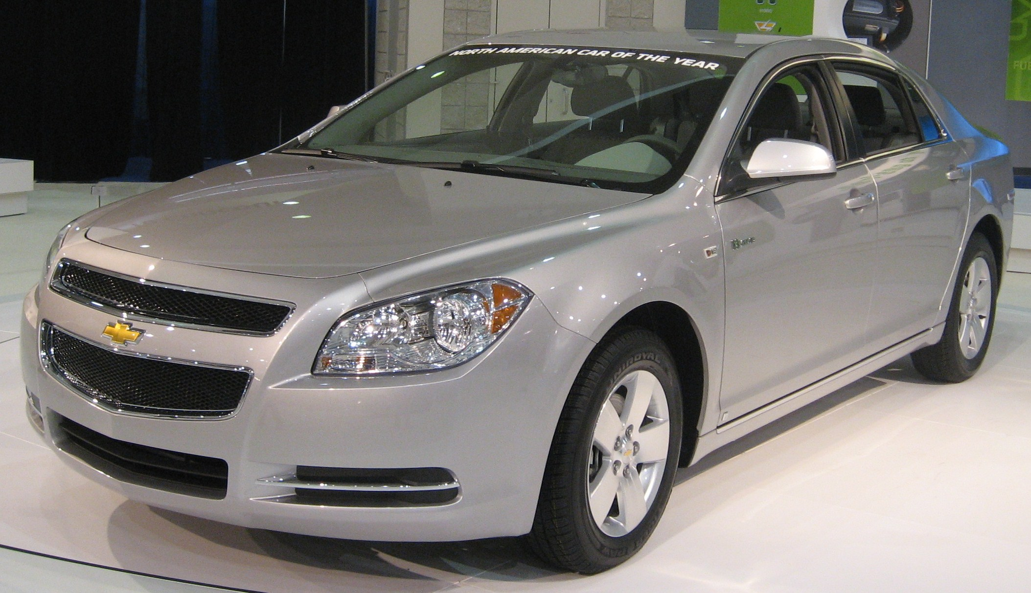 Chevrolet Malibu photographed at the 2008 Washington DC Auto Show.